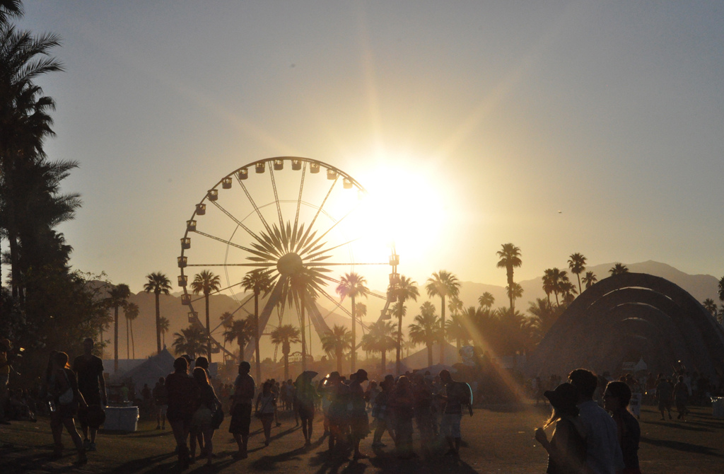 The sun sets over the Coachella Valley Music and Arts Festival on April 21, 2012, during the 2nd day of the festival's 2nd weekend